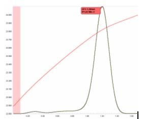 I am the originator of this image I am the originator of this image